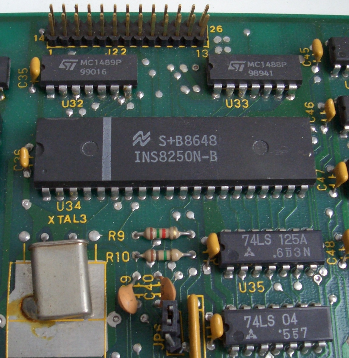 UART 8250 solder on an interface card (PCB)